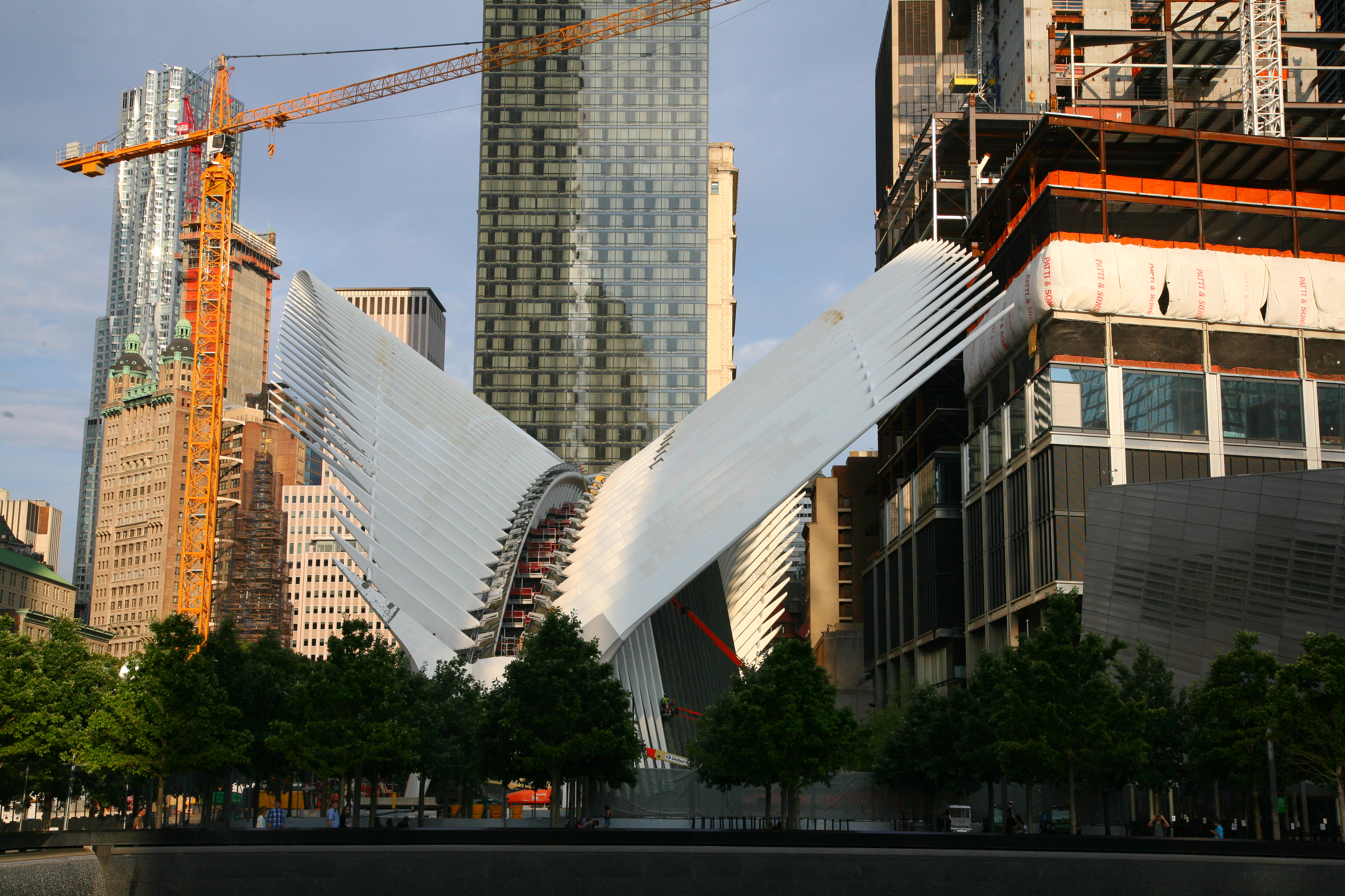 The World Trade Center Transportation Hub, due for completion in Deceber 2015. The view is from the grounds of the National Septeber 11 Memorial Museum.